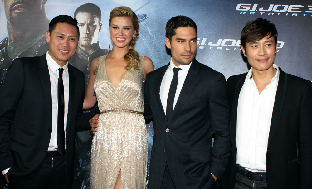 L to R: Director Jon M. Chu, Adrianne Palicki, D.J. Cotrona and Byung-Hun Lee at the G.I. Joe: Retaliation red carpet movie premiere, Event Cinemas, Sydney, Australia - 14th March 2013